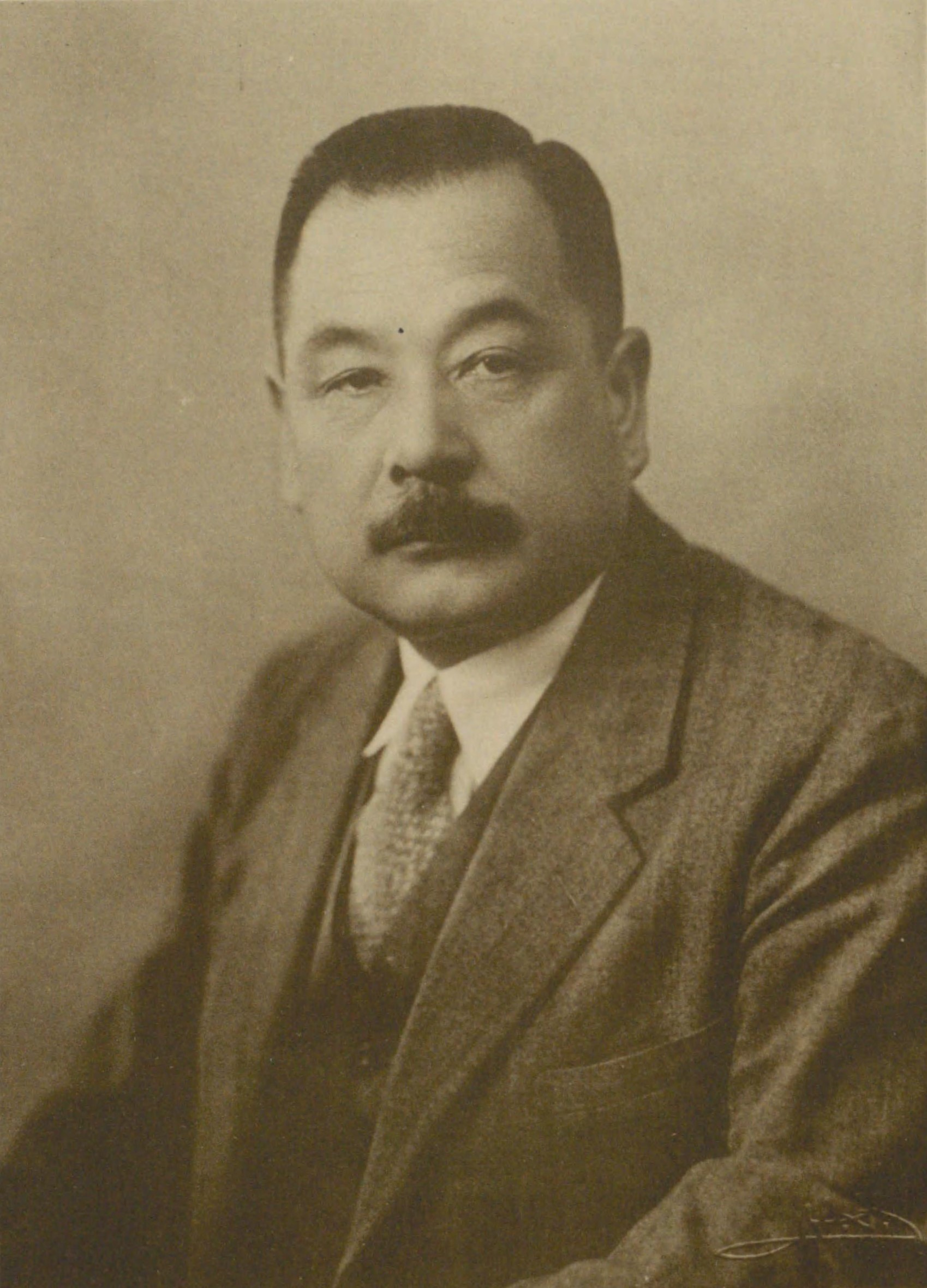 Hayakawa Noritsugu, a Japanese businessman who founded Tokyo Underground Railway (later Tokyo Metro).